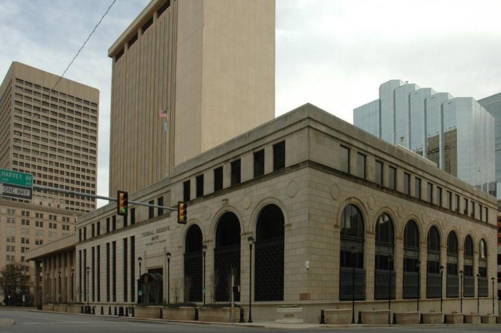 APMEX headquarters in Oklahoma City